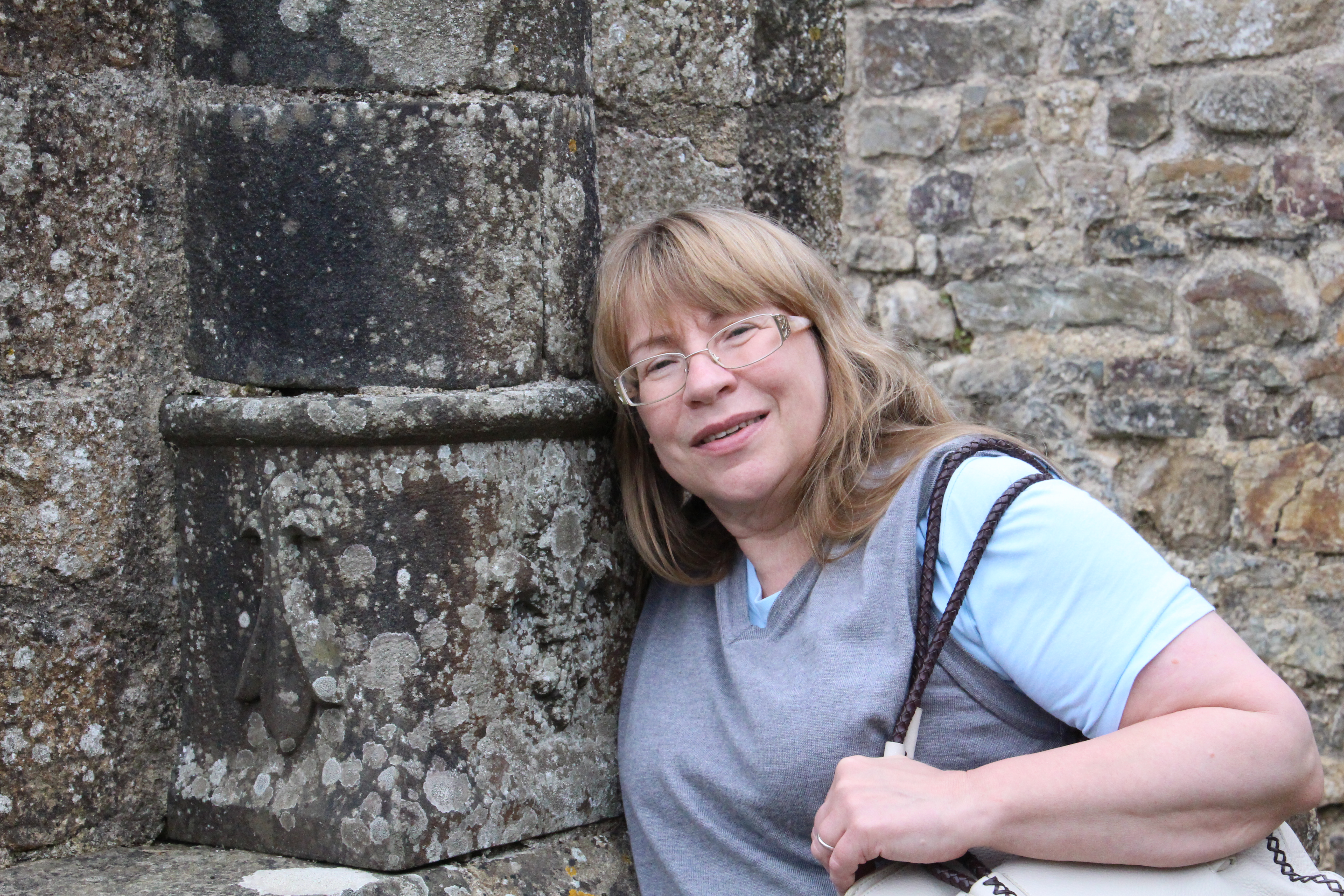 Portrait of Jelena Petrovna Chudinova